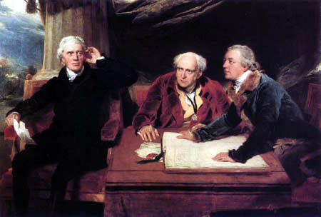 Francis Baring (1740-1810) (left), together with John Baring and Charles Wall